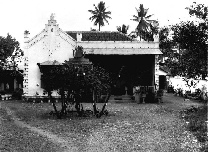 Foto's van de feesten in het Gewest Pekalongan ter herdenking van het zilveren Regeeringsjubileum van Hare Majesteit Wilhelmina, Koningin der Nederlanden